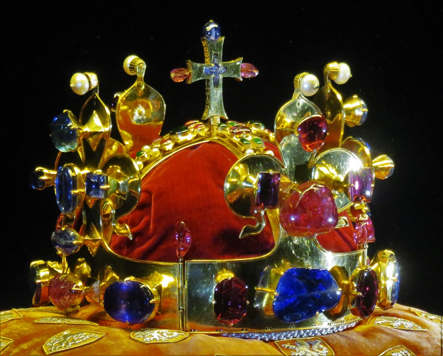 Crown of Saint Wenceslaus from 1340s, used for the coronations of Czech kings until 1836. Exhibited in May 2016 in Prague Castle.